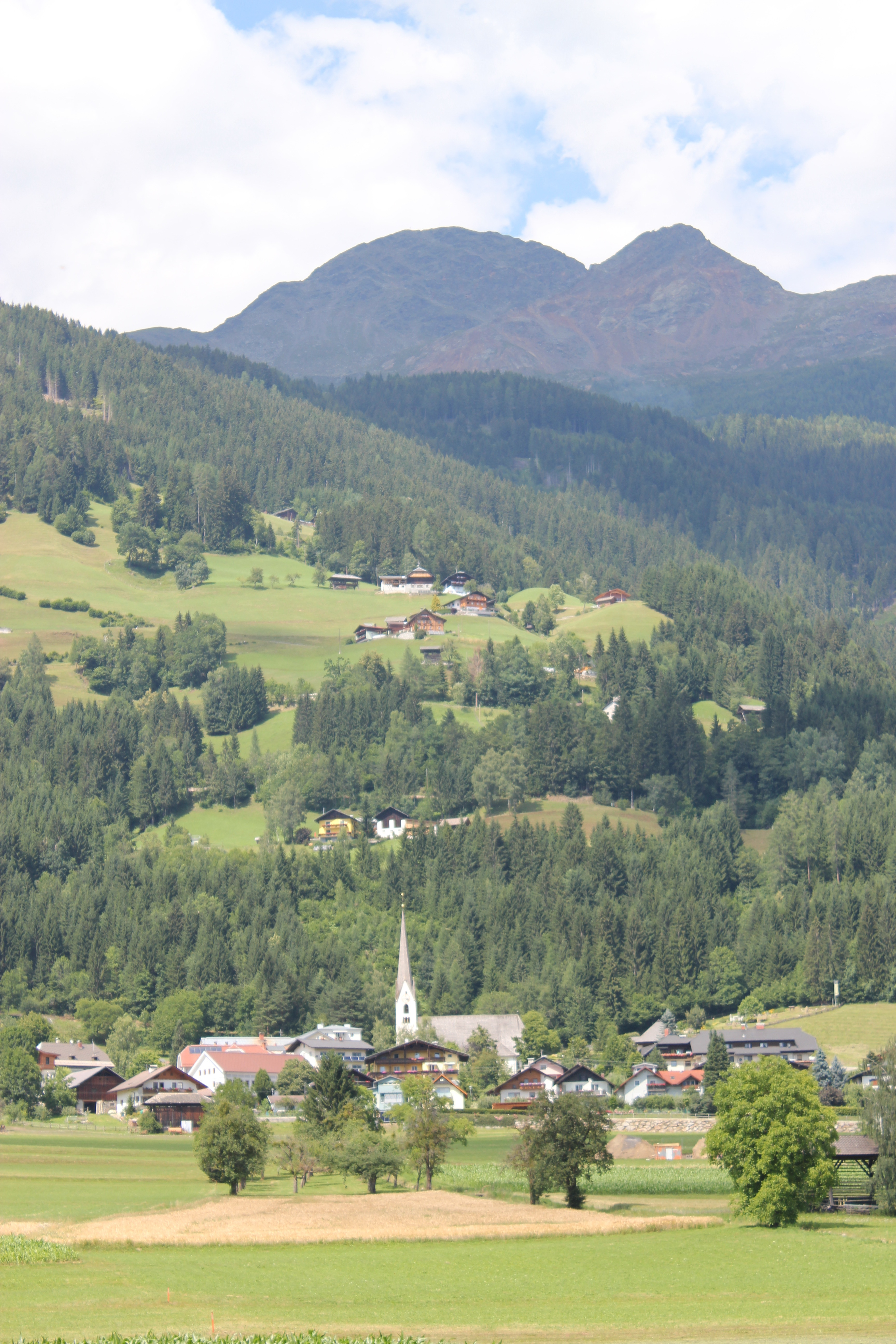 Irschen